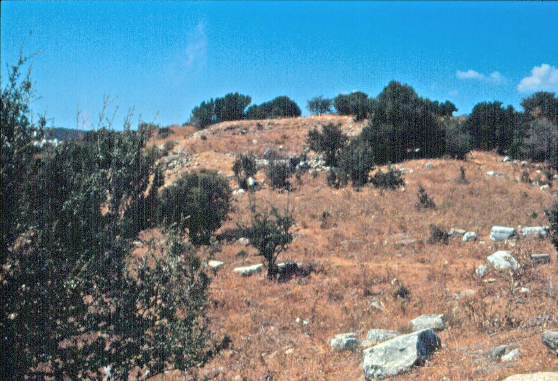 Rmains of the ancient city of Bargylia (Turkey)